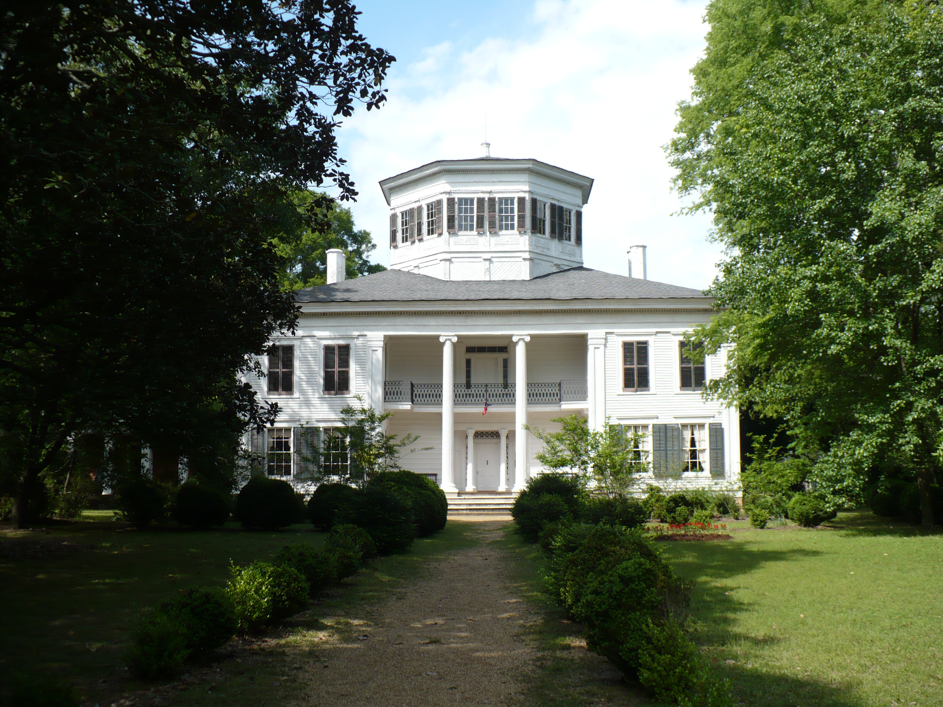 Waverley Plantation in West Point, Mississippi.